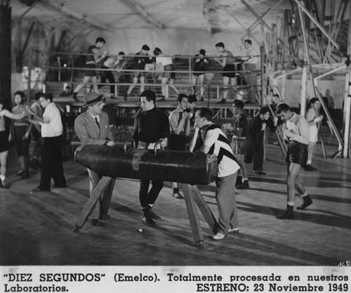 Photograph taken on the set of the Argentine movie Diez Segundos (1949). Boxing venue pictured. From left to right: Rodolfo Onetto, Ricardo Duggan and Oscar Villa.